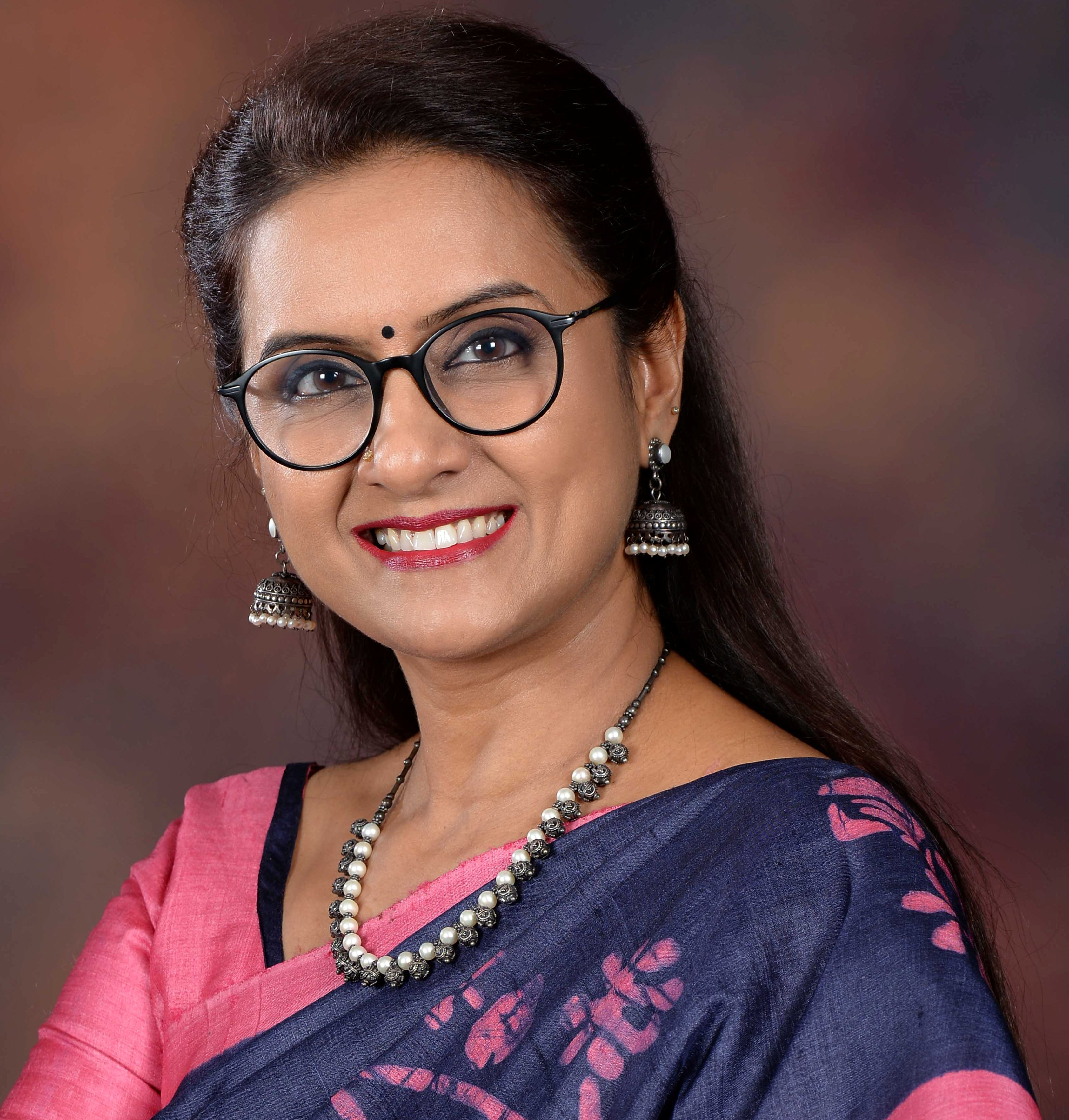 Founder-President, AVTAR Group